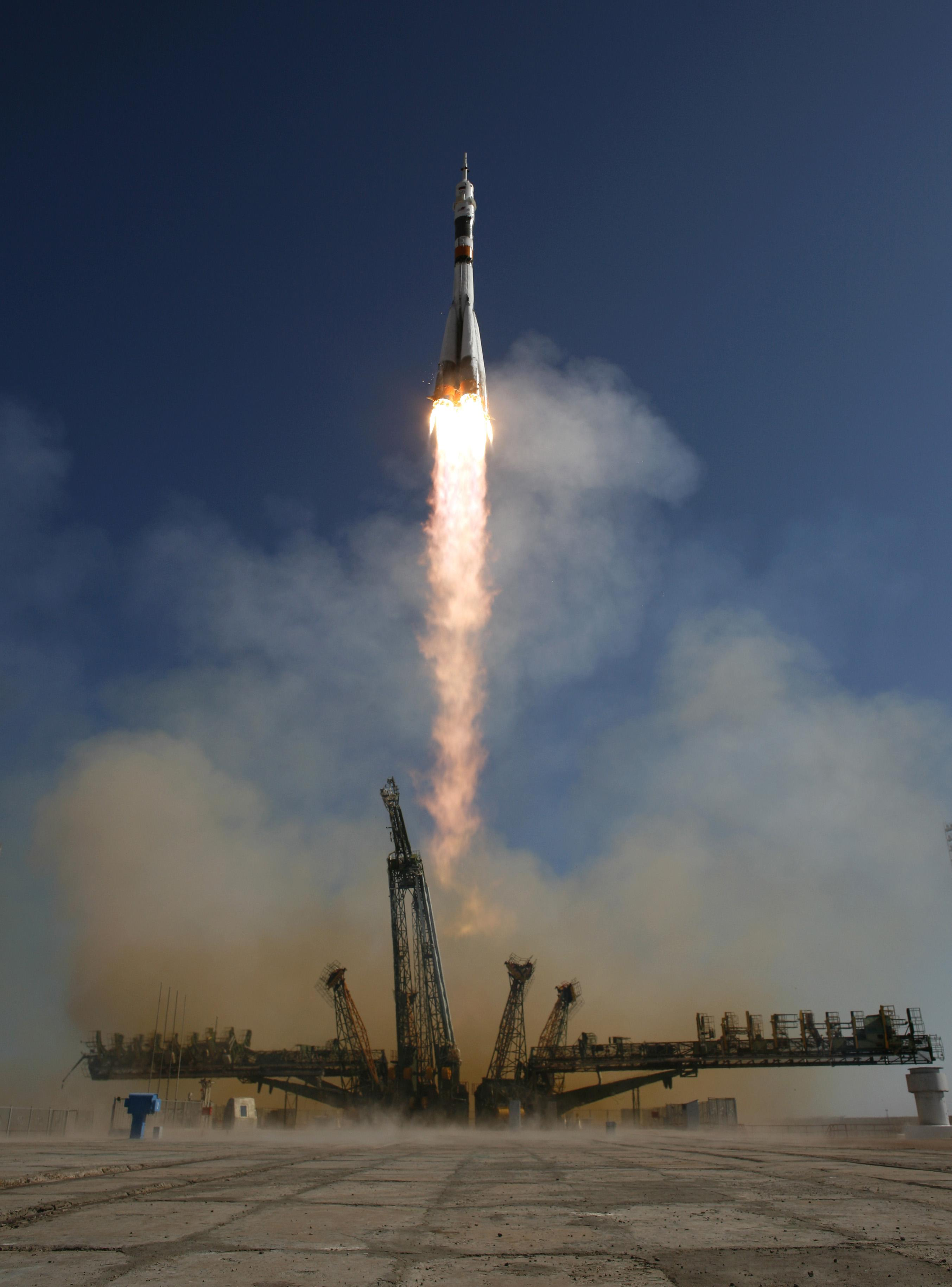 The Soyuz TMA-16 launches from the Baikonur Cosmodrome in Kazakhstan, carrying Expedition 21 Flight Engineer Jeffrey N. Williams, Flight Engineer Maxim Suraev and Spaceflight Participant Guy Laliberté to the International Space Station.